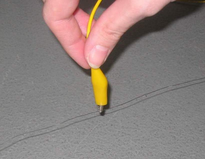 Ohm's law (using a crocodile as a slider)